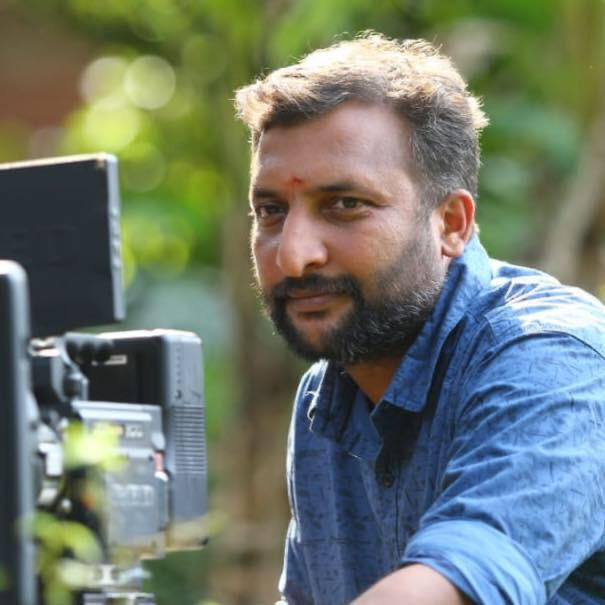 Depicted person: Vishnu Narayan – Indian cinematographer